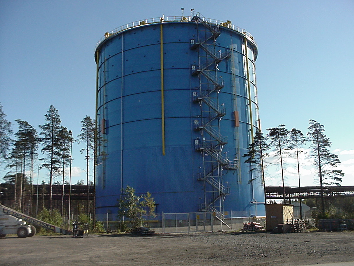 Dry Seal Type Gasholder as designed by Lazarus & Associates Ltd UK